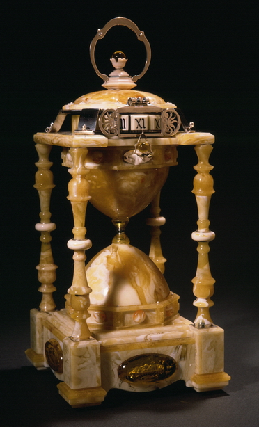 Mechanical clock with spinning dial face, in the case of Amber